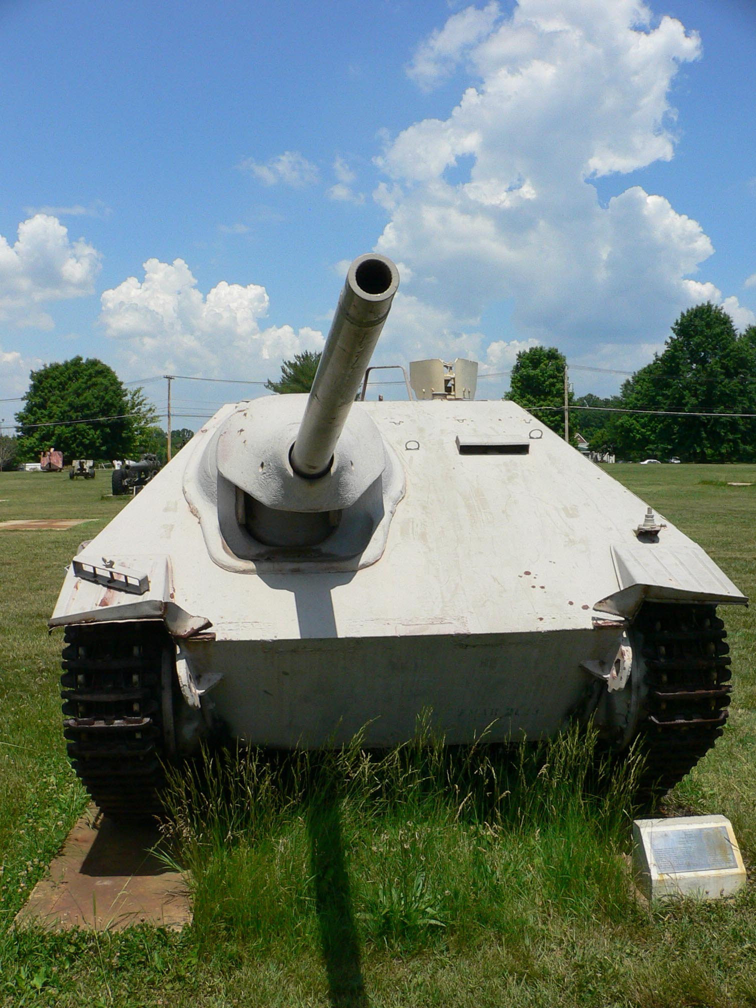 Picture taken by myself, Mark Pellegrini, at the United States Army Ordnance Museum (Aberdeen Proving Ground, MD) on June 12, 2007.